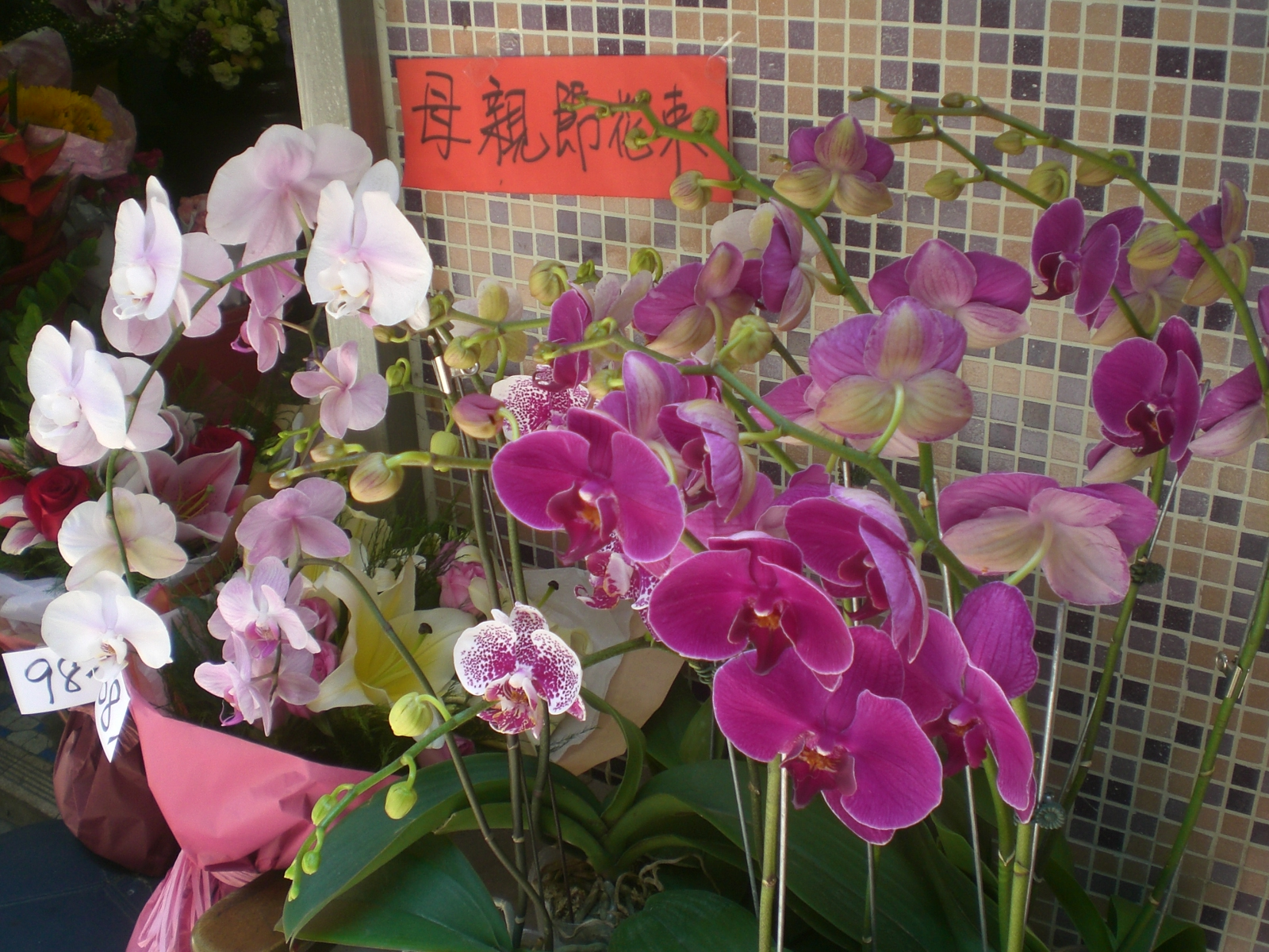 上環 母親節 盆景